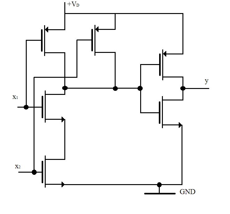 JA-loogikaelement